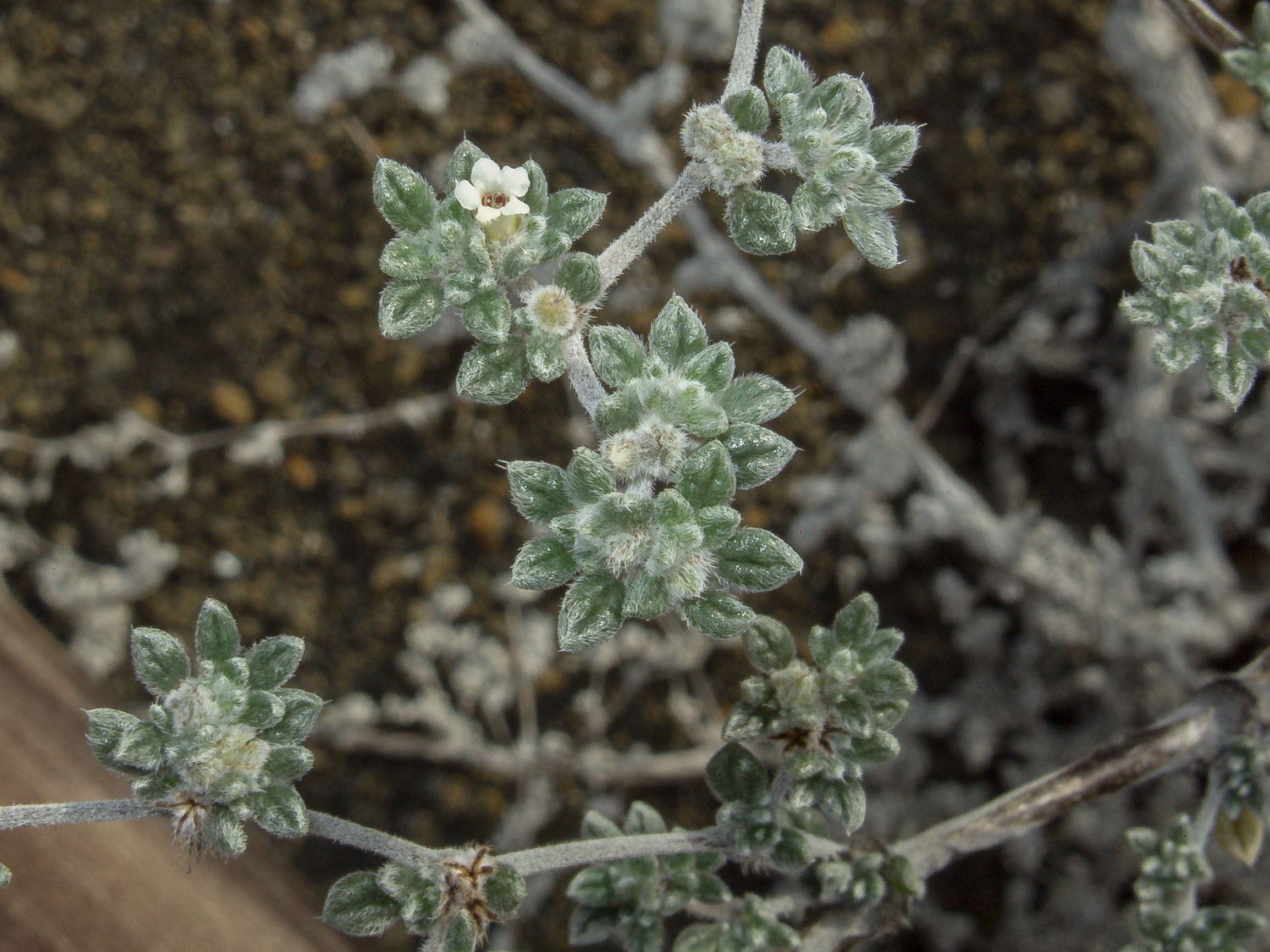 Tiquilia nesiotica (Gray Matplant), Bartolomé Island, Galápagos